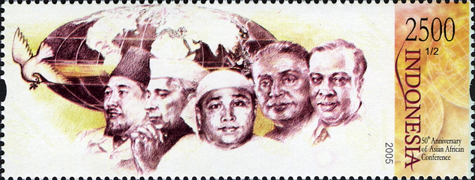 Stamps of Indonesia